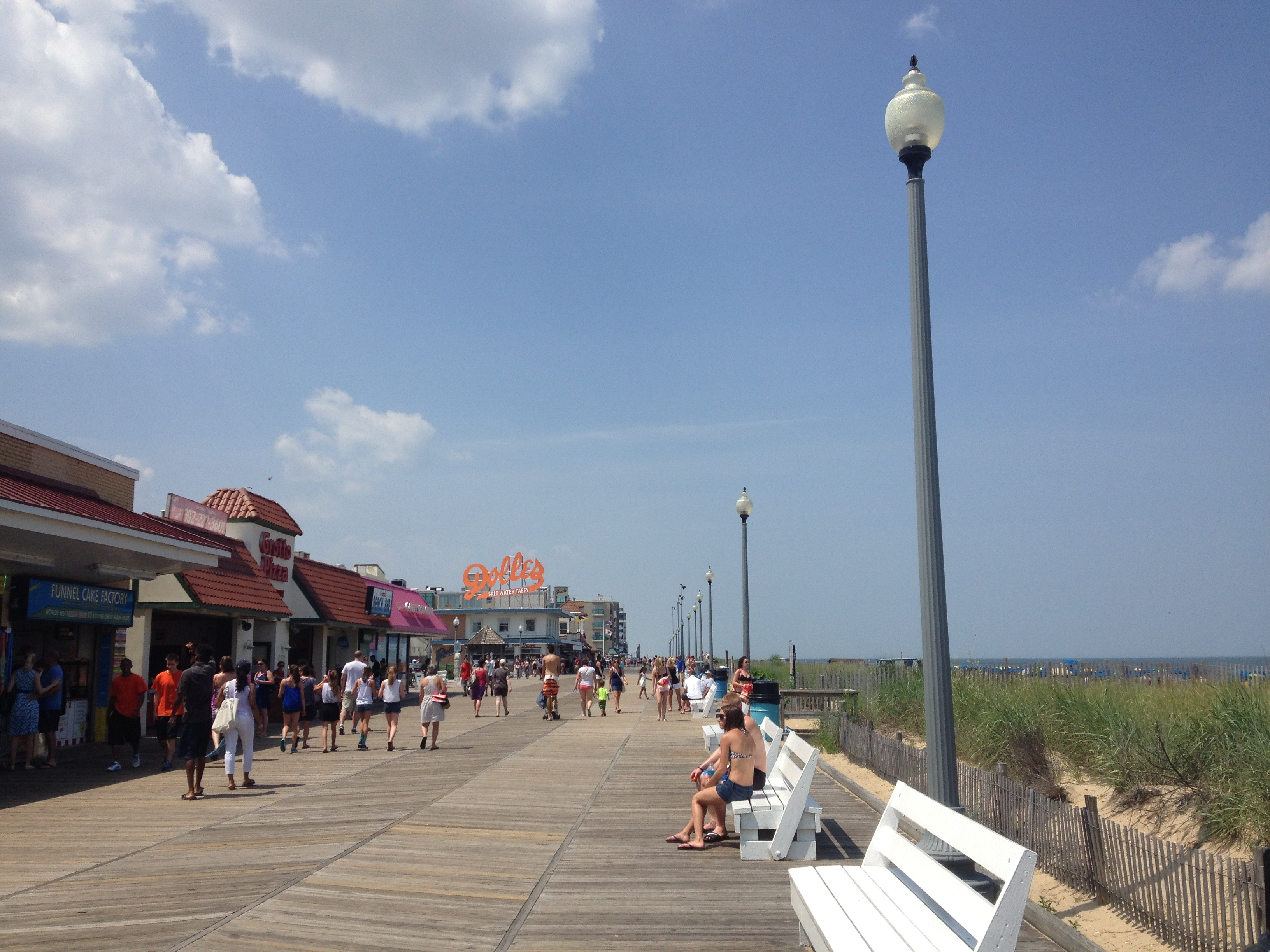 A view of the boardwalk in Rehoboth Beach, Delaware looking north toward Rehoboth Avenue